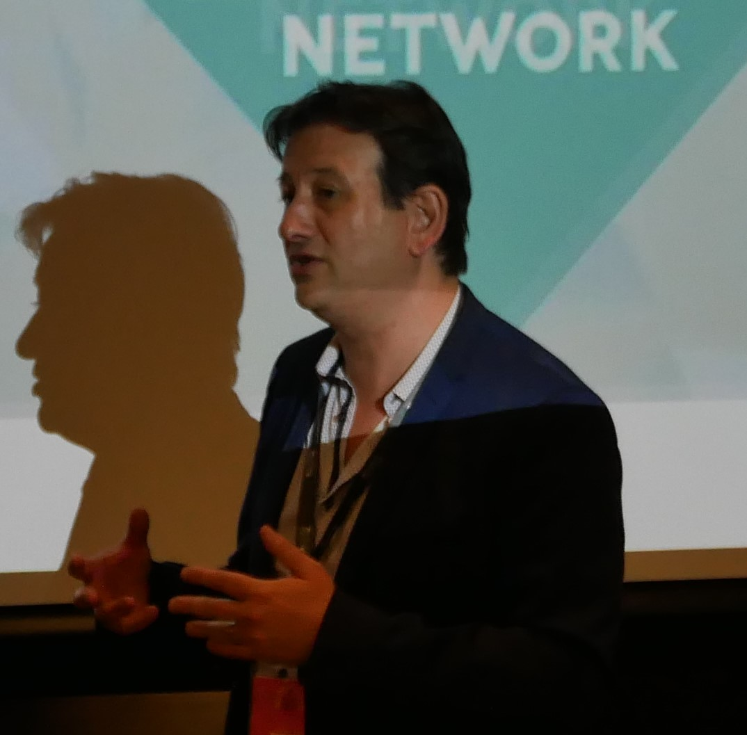 4th International Conference on Public Policy - MONTREAL 2019